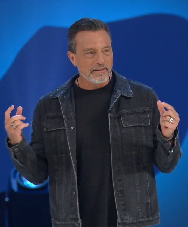 Pastor and author Erwin McManus speaking in 2019